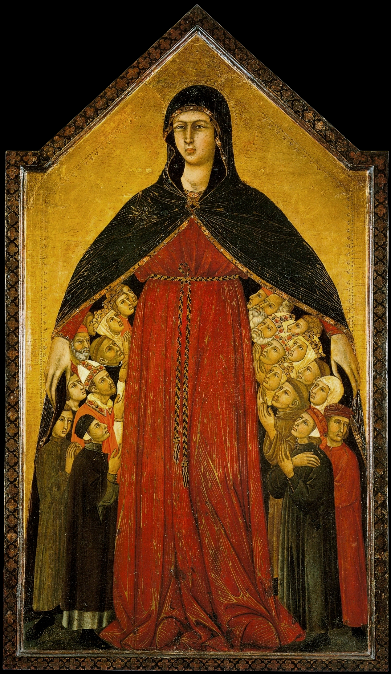 Madonna_della_Misericordia._1308-10._Pinacoteca._Siena